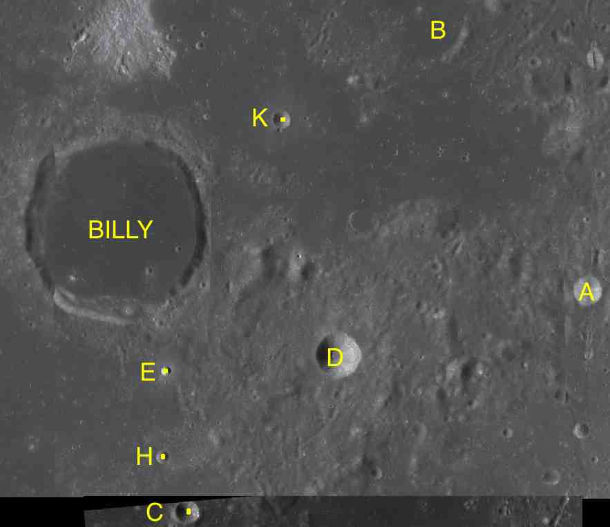 Parts of the charts LAC-74, LAC-75, LAC-93 used for the presentation